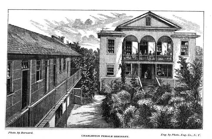 The Charleston Female Seminary in Charleston, South Carolina, on 50 Philip Street. House built 1871/72 by John Henry Devereux